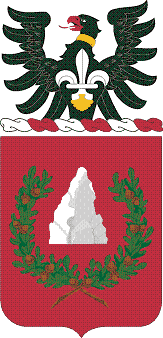 37th Engineer Battalion Coat of Arms